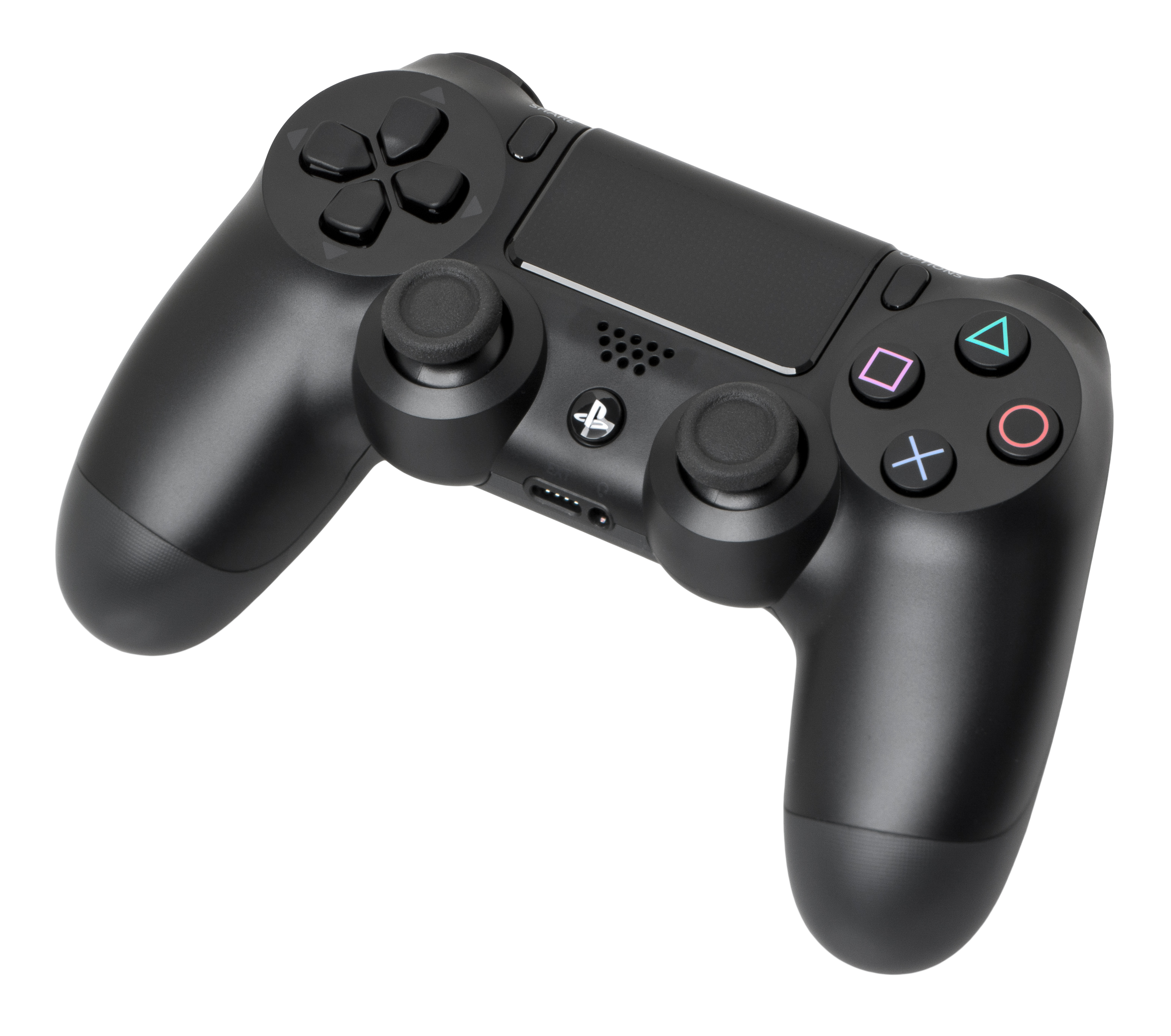 The DualShock 4 (DS4) controller made by Sony for the PlayStation 4. It is notable for using a different form factor than previous PlayStation controllers, which had been relatively unchanged since the original PlayStation DualShock. It features new additions such as a headphone jack, touchscreen and light source for the PlayStation Camera.